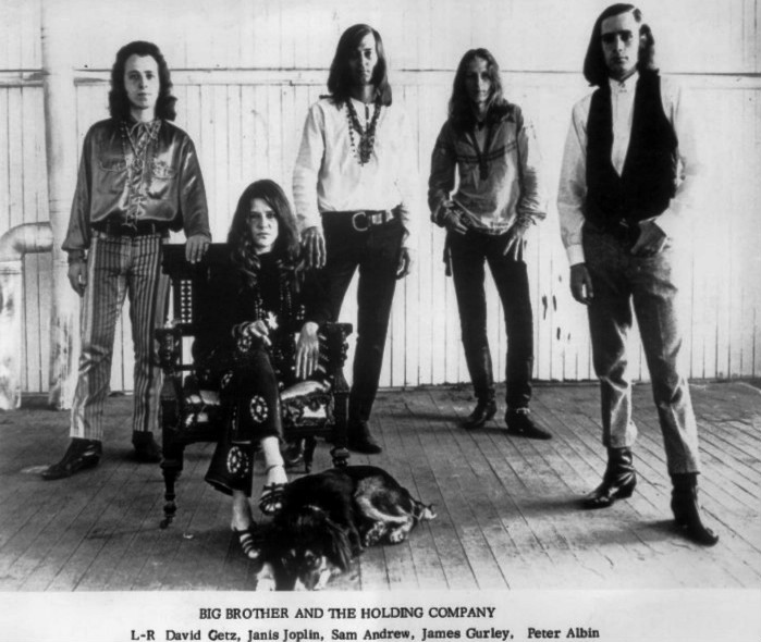 Publicity photo of Janis Joplin and Big Brother and the Holding Company.